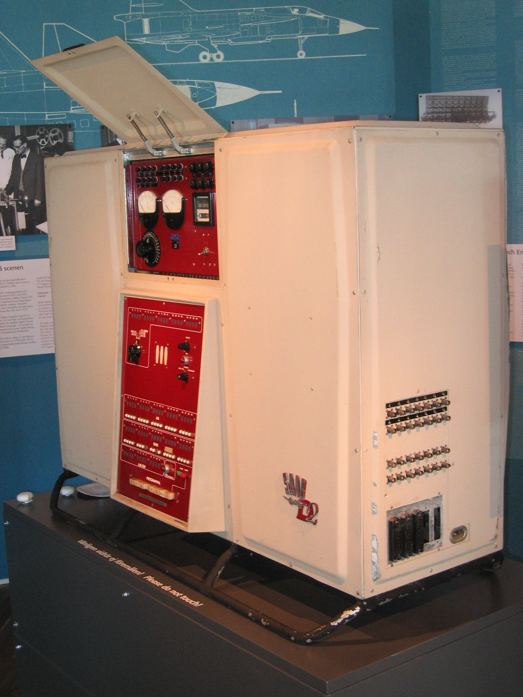 Full view of the computer Datasaab D2 at IT-ceum, the computer museum, in Linköping, Sweden.